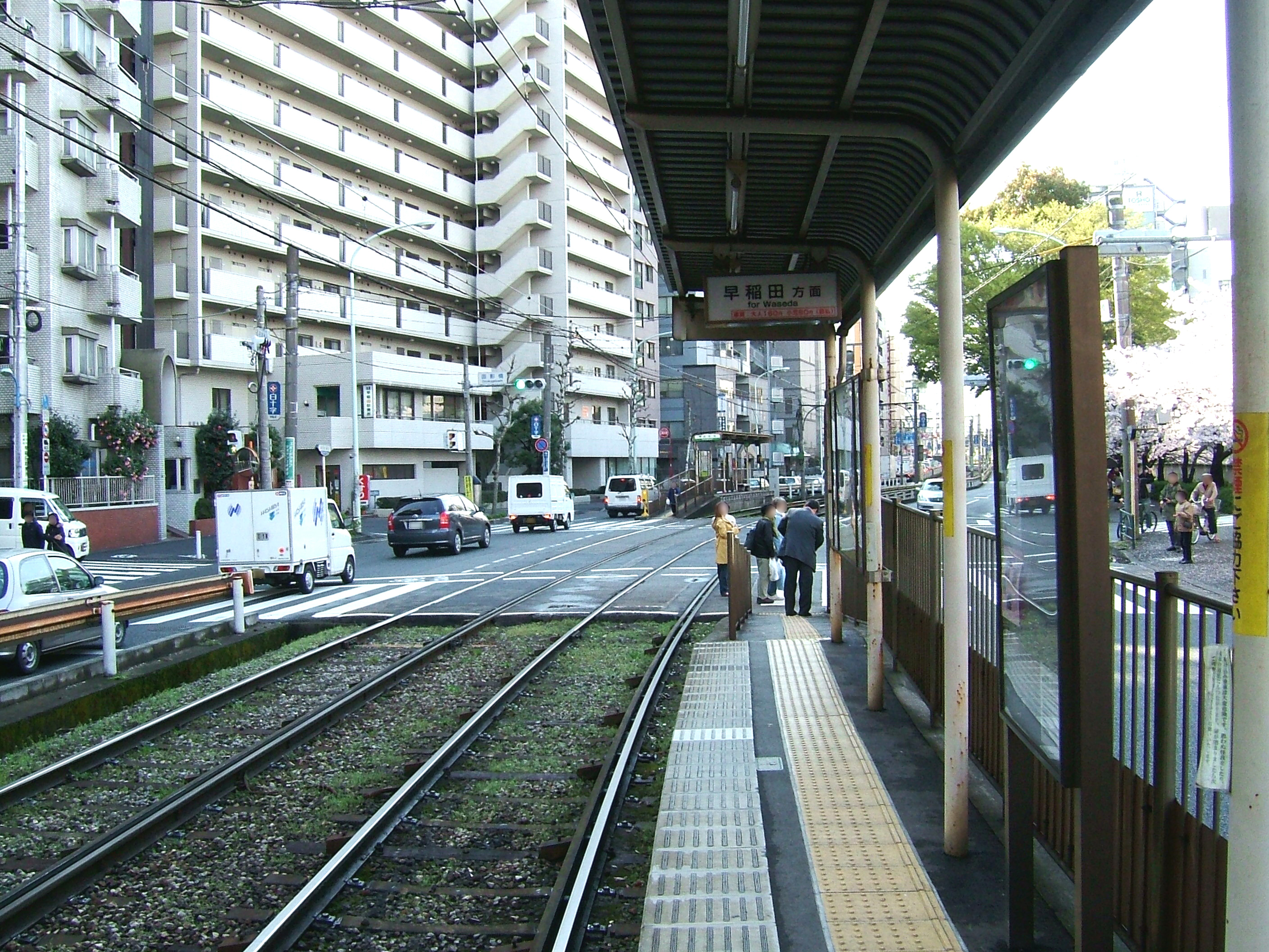 The platforms at Omokagebashi Station on the Toden Arakawa Line in Shinjuku city, Tokyo, Japan